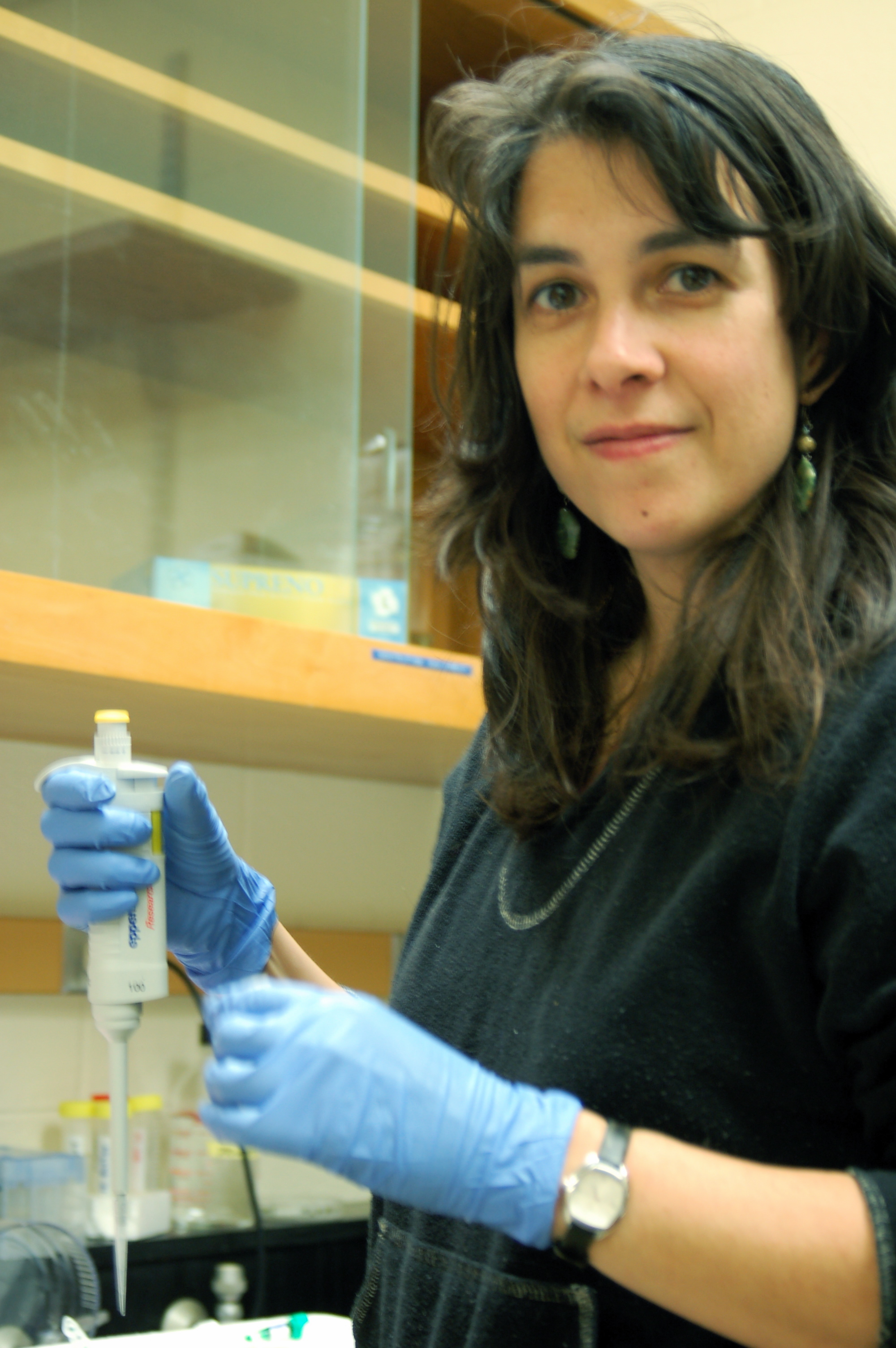 A female scientist samples of DNA for a round in the thermocycler, as preparation for a polymerase chain reaction (PCR).